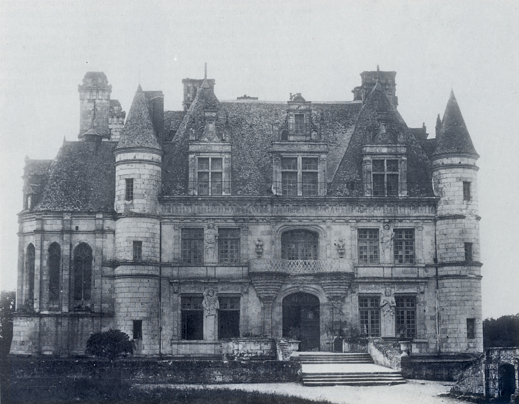 Northern facade of the château de Chenonceau